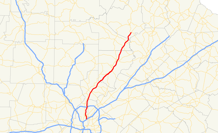 Map of Georgia State Route 400